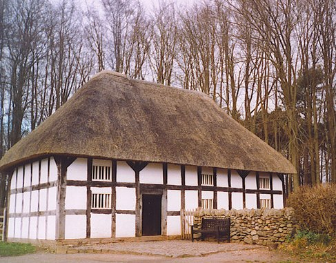 Abernodwydd Farmhouse, Museum of Welsh Life. The thatched farmhouse was built in 1678 at Llangadfan, Montgomeryshire (Powys). Clay and hazel rods fill in between the timbers.